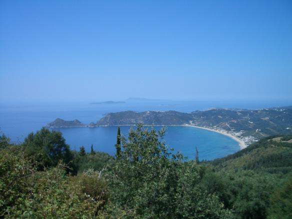 Corfu. Aghios Georgios, Corfu.